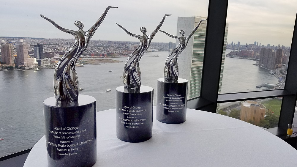 These are the first three Agent of Change Awards, bestowed in 2016, with the United Nations building in the background.